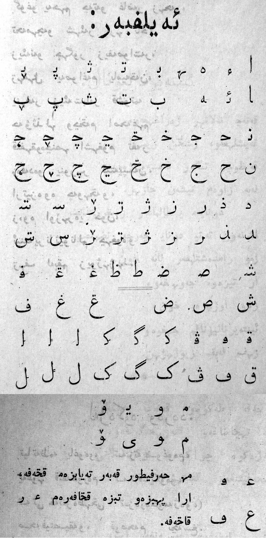 Adyghe arabic alphabet from 1924 book